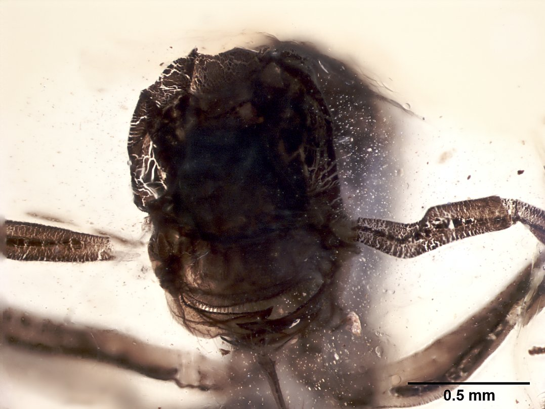 Closeup frontal view of the Gerontoformica cretacica holotype specimen head, MNHNA30088. Charentese amber, France, Albian-Cenomanian (100 million years old)